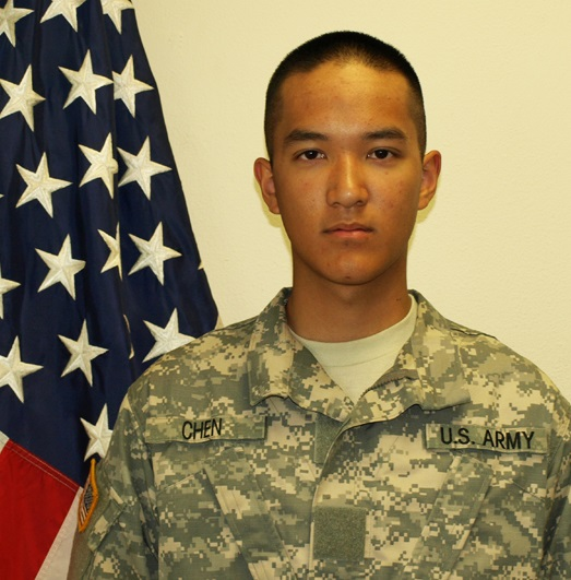 Official U.S. Army portrait of :en:[suicide of Danny Chen|Private Danny Chen